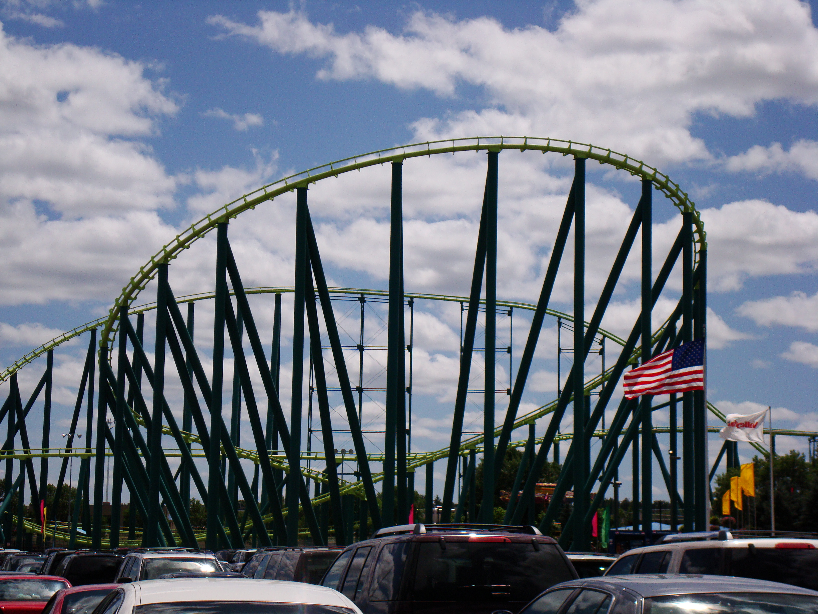 Wild thing at the Valley Fair